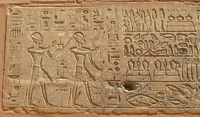 Detail of the Red Chapel, showing Thutmoses III and Hatshepsut